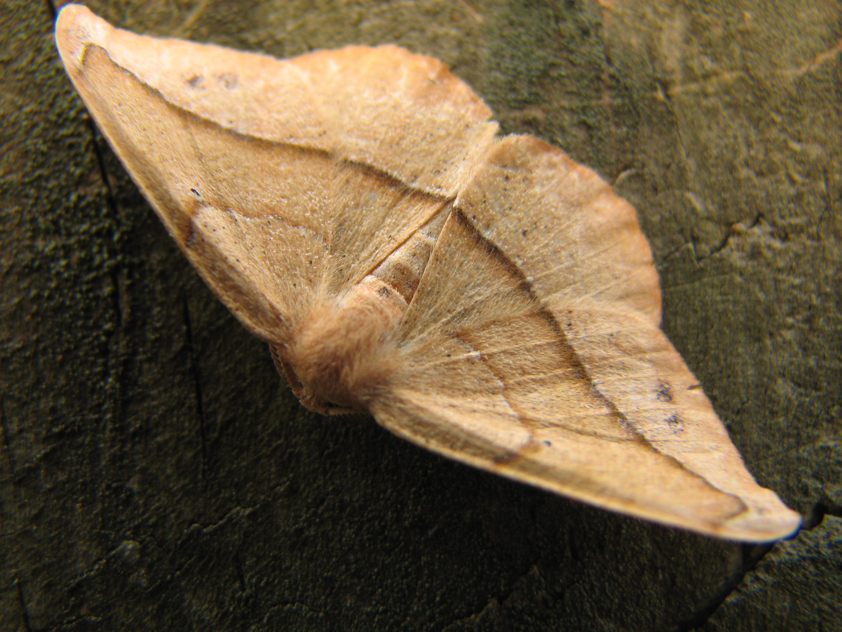 Juniper-twig Geometer, Patalene olyzonaria, Willow Grove, Montgomery County, Pennsylvania, USA